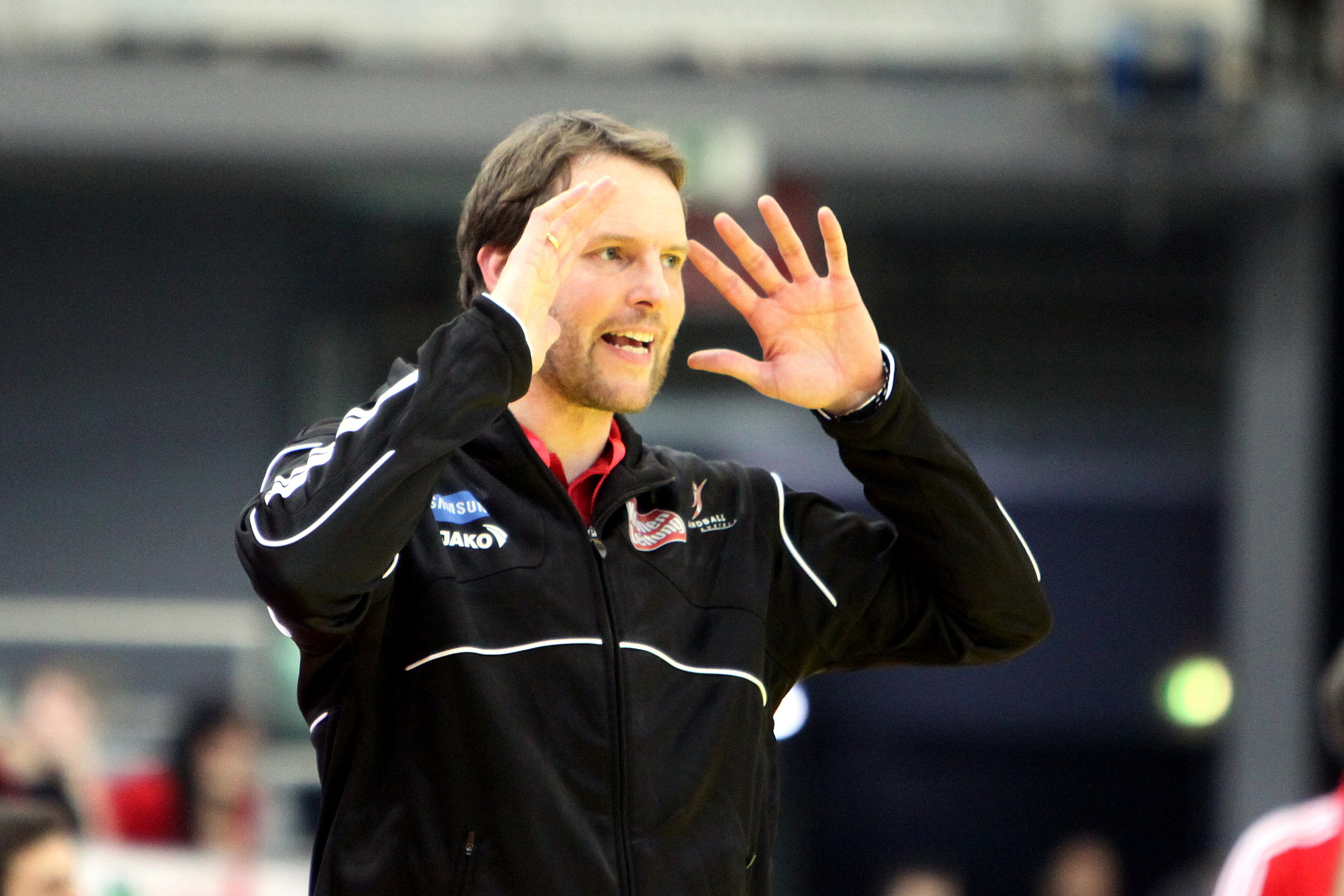 Dagur Sigurðsson (Teamchef), Austria national handball team